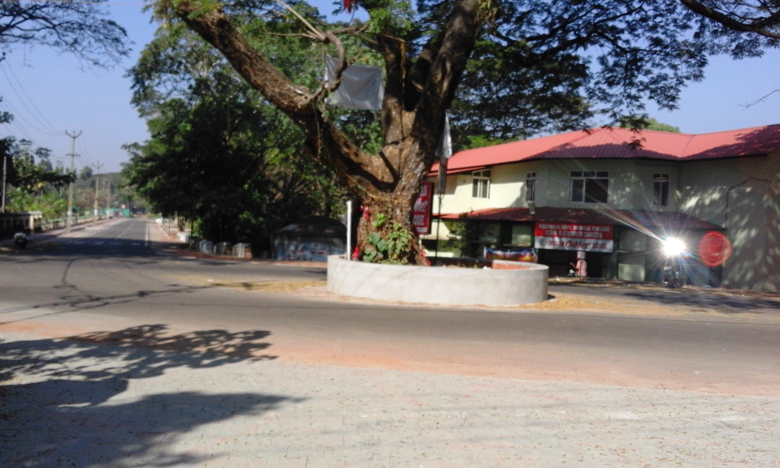 Calicut Medical College, Kozhikode East, Kozhikode District, Kerala, India.